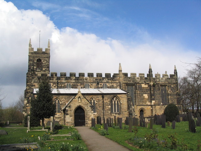 Church of St Wilfred, Wilford. Named after the important 7th century churchman, Wilfred bishop of York (whose see included Nottingham). The village's name may derive from "Wilfred's Ford"